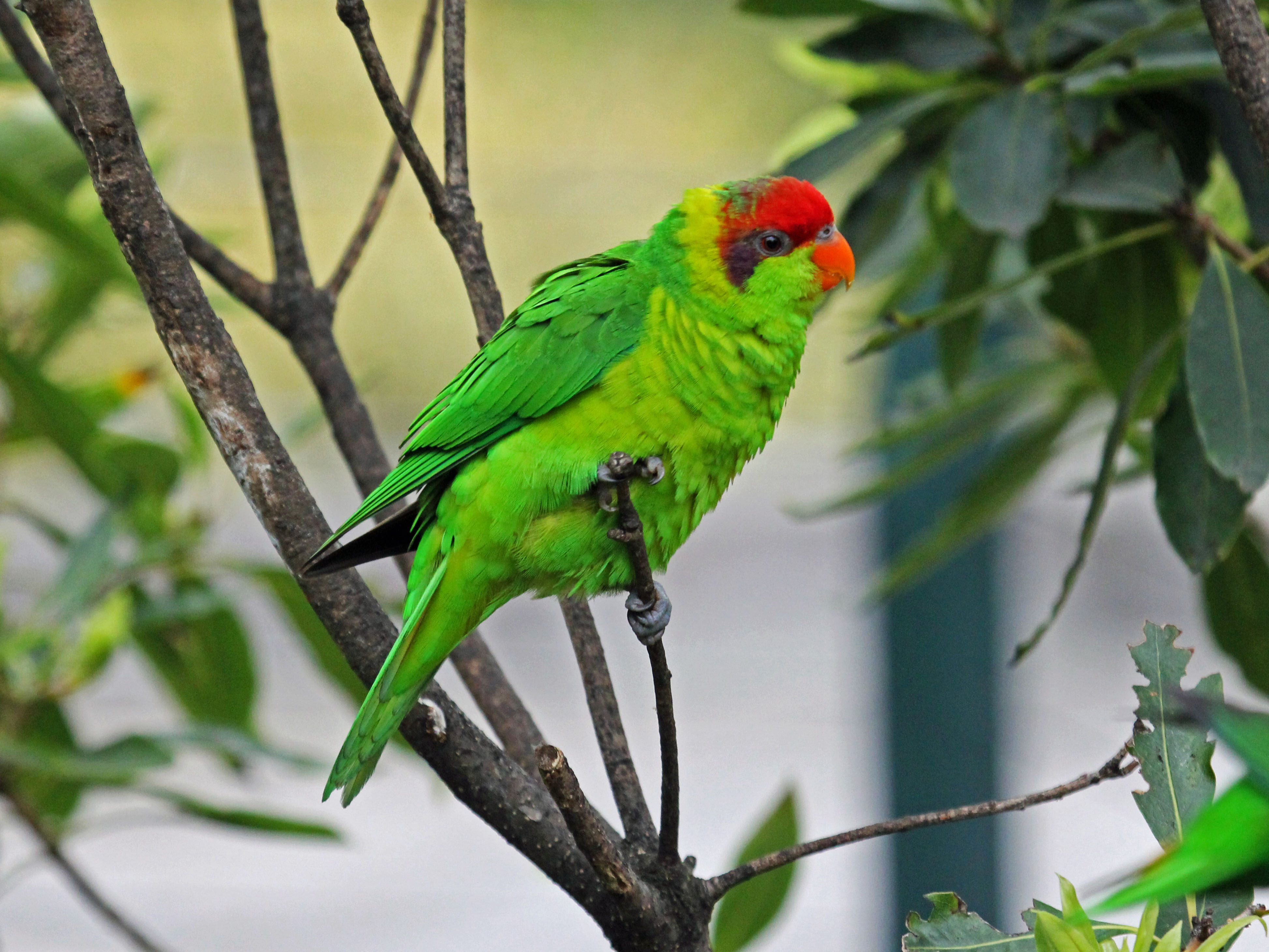 Iris Lorikeet (Psitteuteles iris) - San Diego Zoo